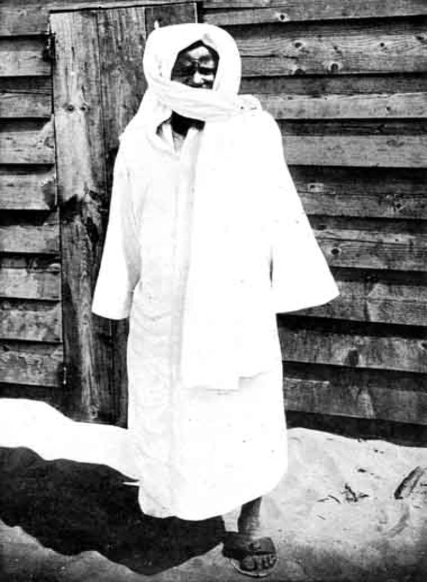 Cheikh Ahmadou Bamba